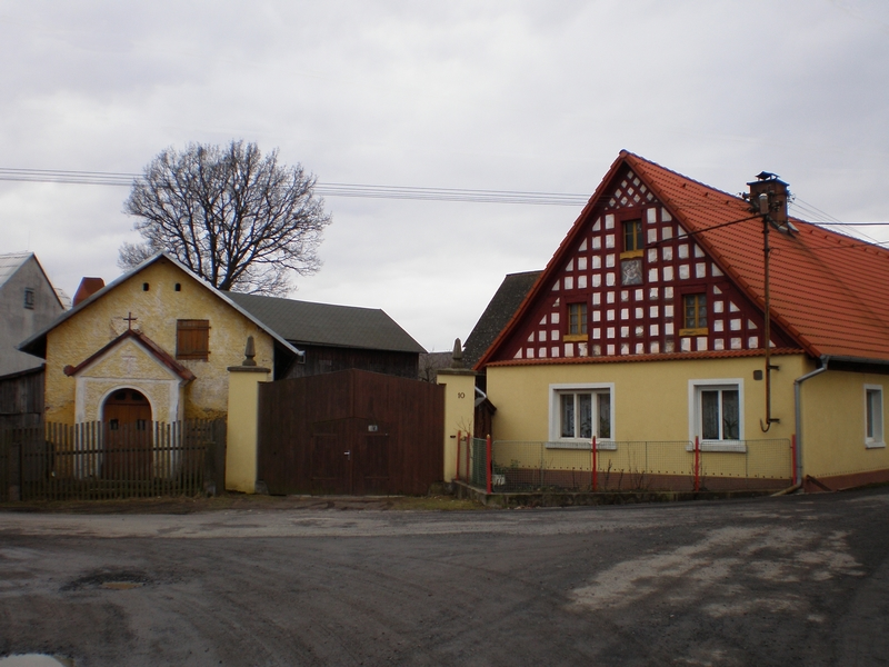 Half-timbered house and chapel in Polná (Hazlov), Cheb District, Czech republic.